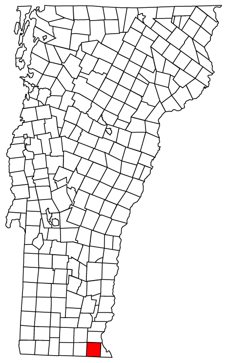 Description: Map of Vermont towns with Guilford highlighted Source: Map created by Jared C. Benedict on 26 March 2004. Copyright: © Jared C. Benedict.